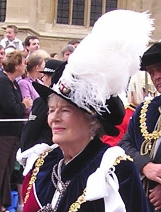 Lady Soames wearing her robes as a Lady Companion of the Order of the Garter, in procession to St George's Chapel, Windsor Castle for the annual service of the Order of the Garter.